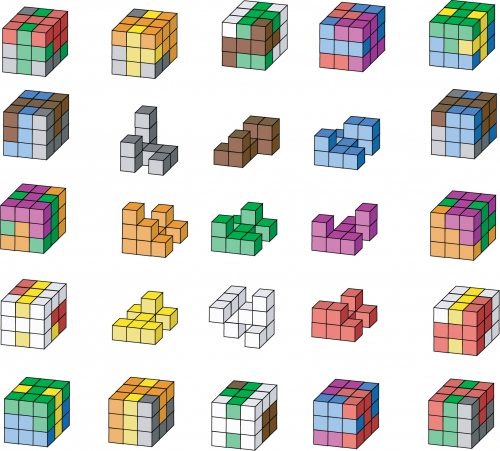 A 3D geomagic square with target a perfect cube.